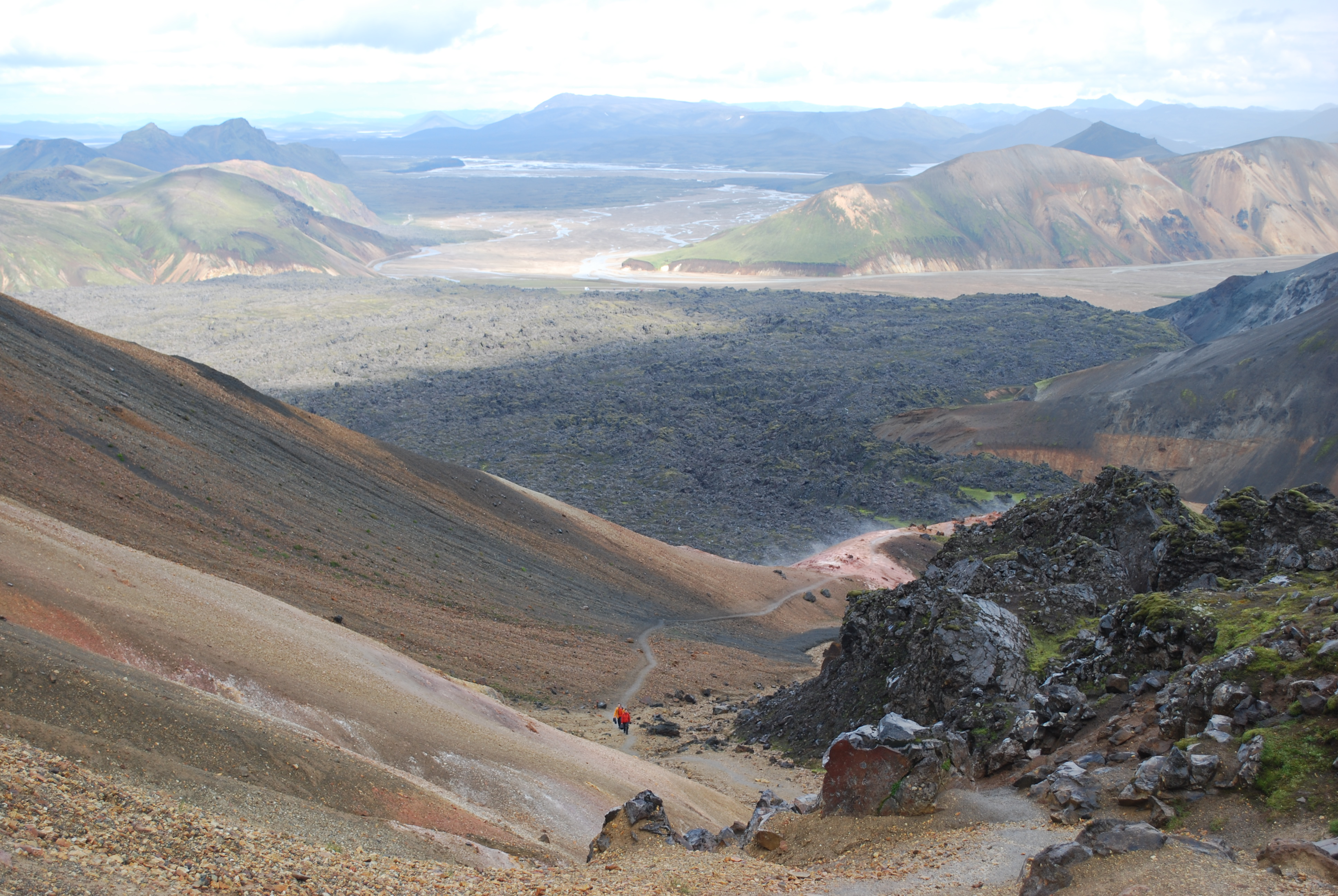 Landmannalaugar area during Laugavegur hiking trail , Iceland